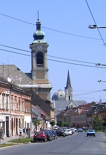 Újváros Roman catholic church. - 42 Kossuth Lajos utca, Győr, Hungary.